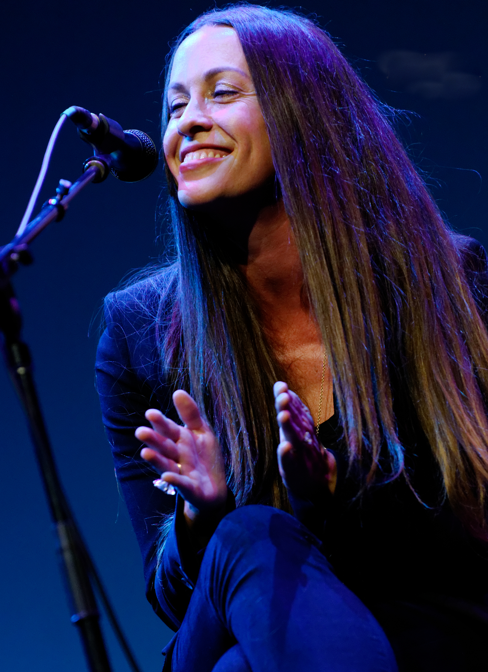 Alanis Morissette performing live at the Saban Theatre in Beverly Hills CA on October 20th, 2013. Alanis was the special musical guest at Marianne Williamson's event to announce her candidacy for Congress (U.S. House of Representatives, District 33).